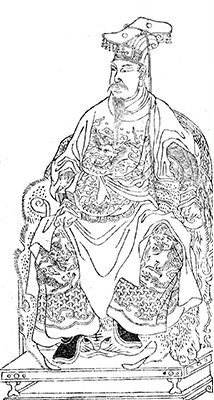 Portrait of Yue Fei